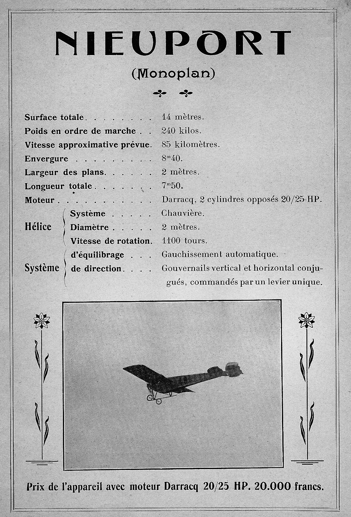 A page from a Nieuport aircraft catalog, circa 1911.